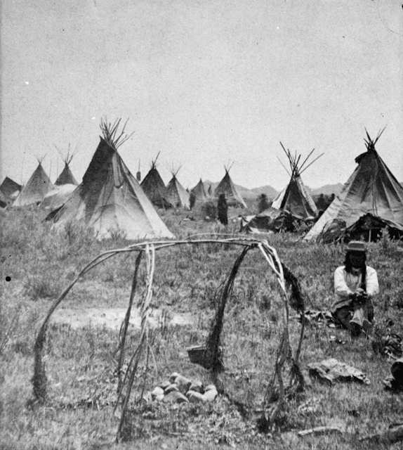 Sweat lodge, Sioux Village / L. A. Huffman, Miles City, Montana Huffman, L. A. 1854-1931 (Laton Alton), CREATED/PUBLISHED [between 1896 and 1905]. SUMMARY A Native American (Sioux) man sits on the ground near the uncovered frame of a sweat lodge. A fire pit is in the center of the lodge, teepes are in the background. NOTES Title hand-written on front of original. Photoprint represents one half of a stereograph; photonegative represents stereograph. Additional information from stereograph: "Northern Pacific Views, Badland and Big Horn Scenery. Fine Indian portraits a specialty, rates to the trade." At head of title: "#32." Source: Paul Harbaugh loan. SUBJECTS Indians of North America--1890-1910. Dakota Indians--1890-1910. Sweatbaths--1890-1910. Indian encampments--1890-1910. Tipis--1890-1910. Photographic prints. Film negatives. MEDIUM 1 photoprint ; 18 x 13 cm. (7 x 5 in.) 1 copy negative ; 13 x 10 cm. (5 x 4 in.) REPRODUCTION NUMBER X-31700 REPOSITORY Western History/Genealogy Department, Denver Public Library, 10 W. 14th Avenue Parkway, Denver, Colorado 80204.